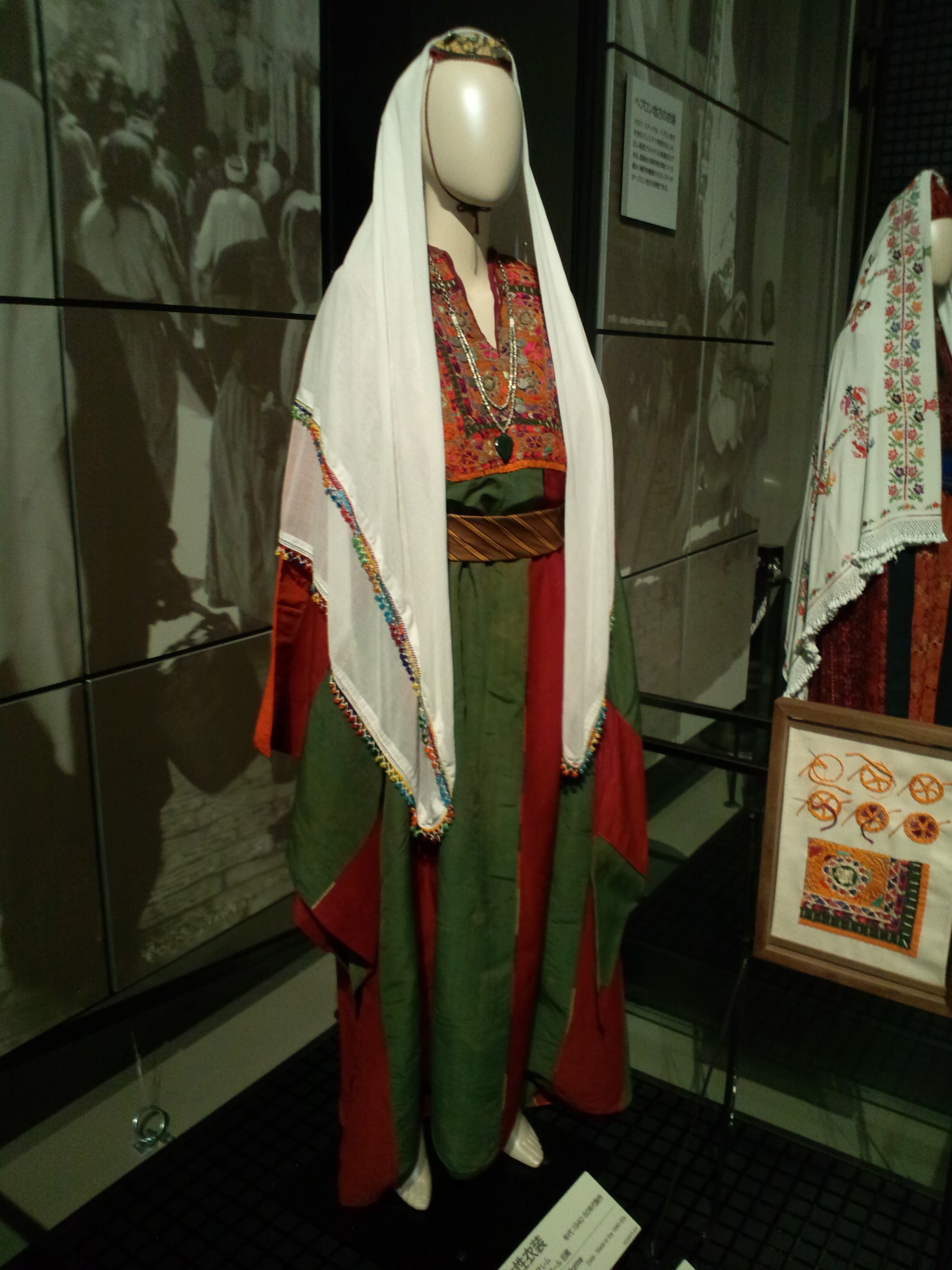 Traditional Palestinian women's clothing.